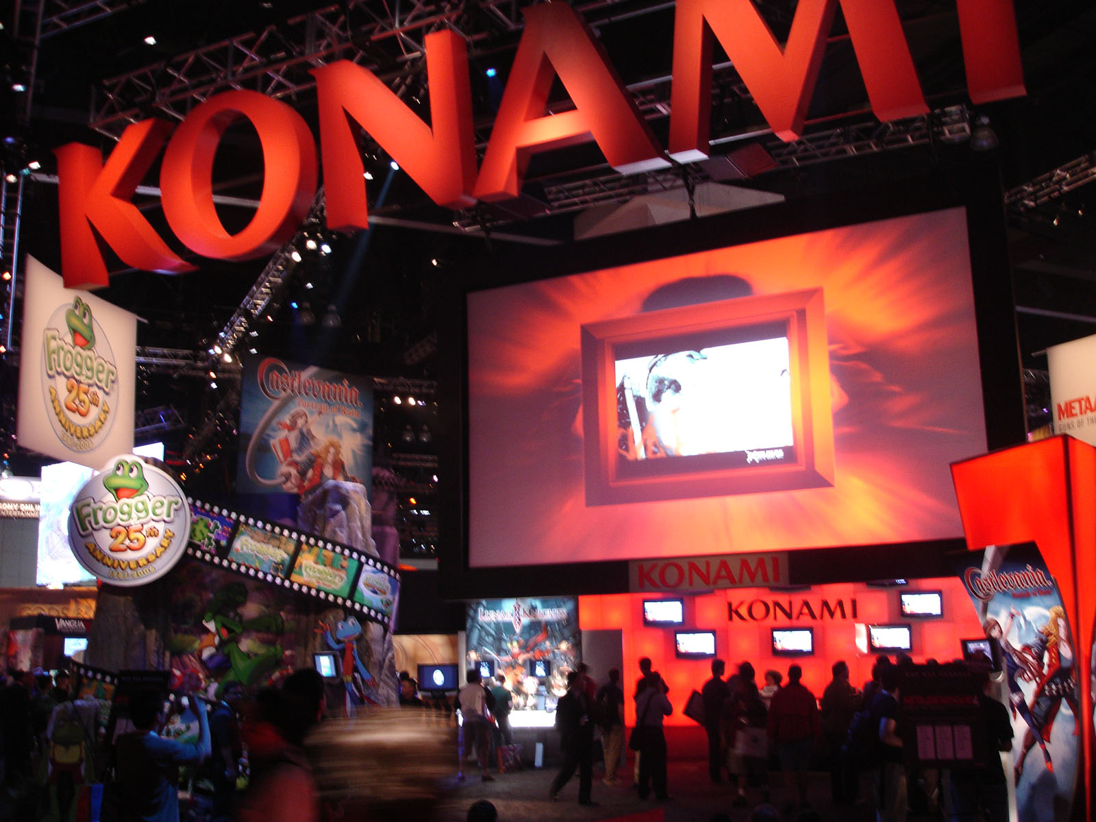 Konami America booth at Electronic Entertainment Expo 2006.